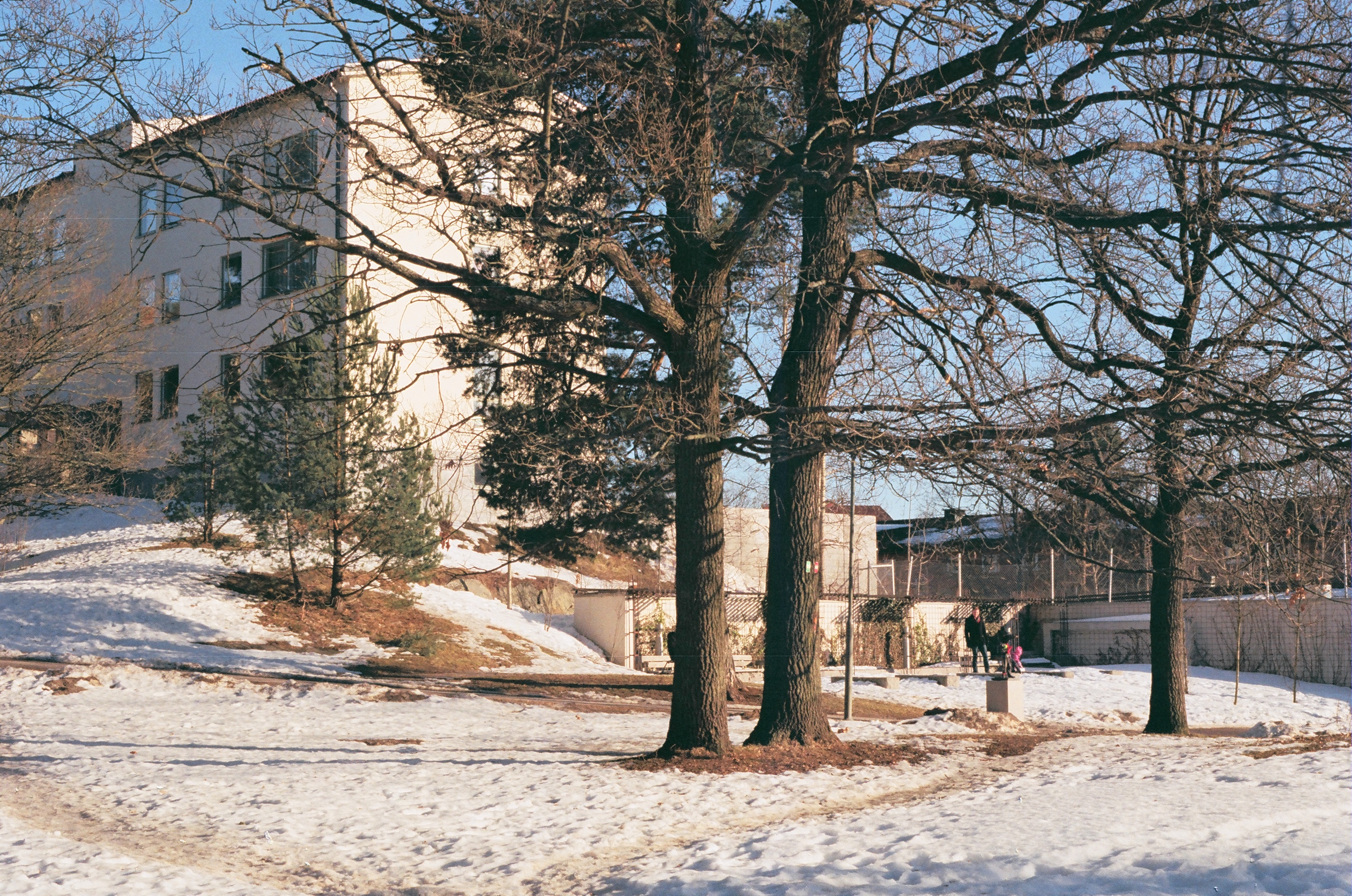 Willy Brandts Park is a small park in Hammarbyhöjden, Stockholm, named after former German Chancellor Willy Brandt, who lived in the area during his exile from Nazi Germany